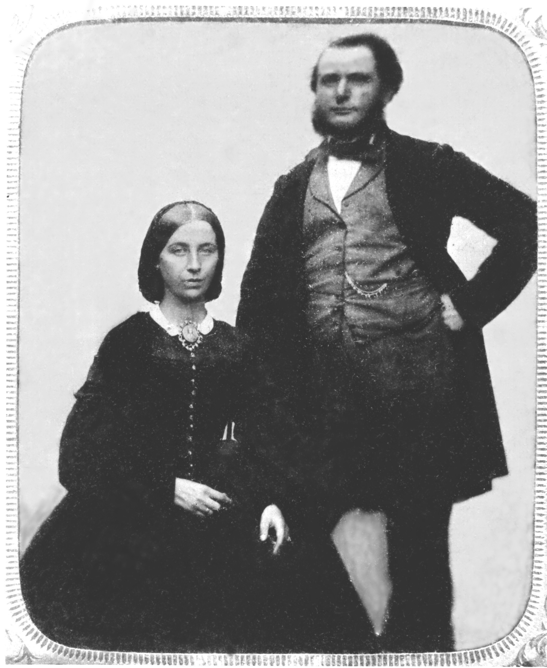 Historic photorgaph of Jane and Heman Gibbs, thought to be their wedding day circa 1848. They moved to Minnesota shortly after and bought a farm in present day Falcon Heights, near the Minnesota State Fair grounds. Jane was abducted by missionaries in Batavia, New York when she was 5. She grew up with the Dakota as her new father tried to convert them.